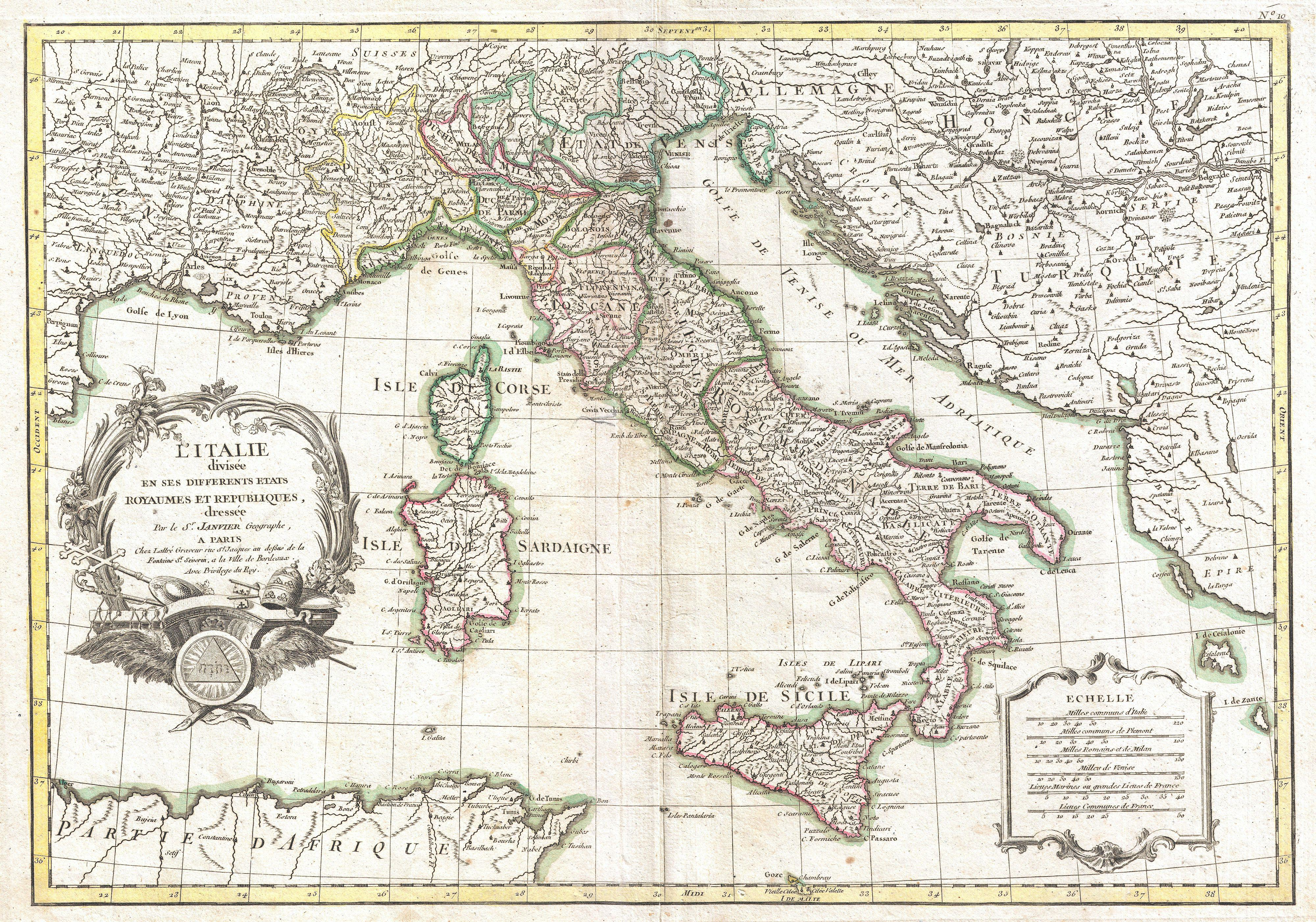 A beautiful example of Le Sieur Janvier's 1770 decorative map of Italy. Covers from the Gulf of Eyon eastward to include all of Corsica, Sardinia, Italy, the Adriatic, and parts of Hungary and Turkey in Europe. Extends south to include adjacent parts of Africa and north as far as Lake Geneva. An elaborate title cartouche rendered with Papal accoutrements appears in the lower left hand quadrant. A secondary cartouche bearing a six distance scales appears in the lower right. This map shows the Italian peninsula prior to its struggle for national solidarity which would emerge as a movement about 50 years later in the early 19th century. The peninsula is divided into numerous independent states, duchies, republics, kingdoms and, of course, the Papal States (States of the Church). Overall, a fine map of the region. Drawn J. Janvier c. 1770 for issue as plate nos. 10 in Jean Lattre's 1776 issue of the Atlas Moderne .